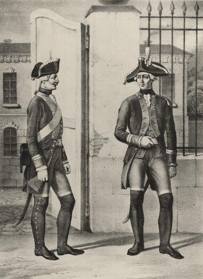 Master-at-arms and Junior praporshchik of the Musketeer compny in a infantry regiment from 1763 to 1786, Imperial Russian Army.